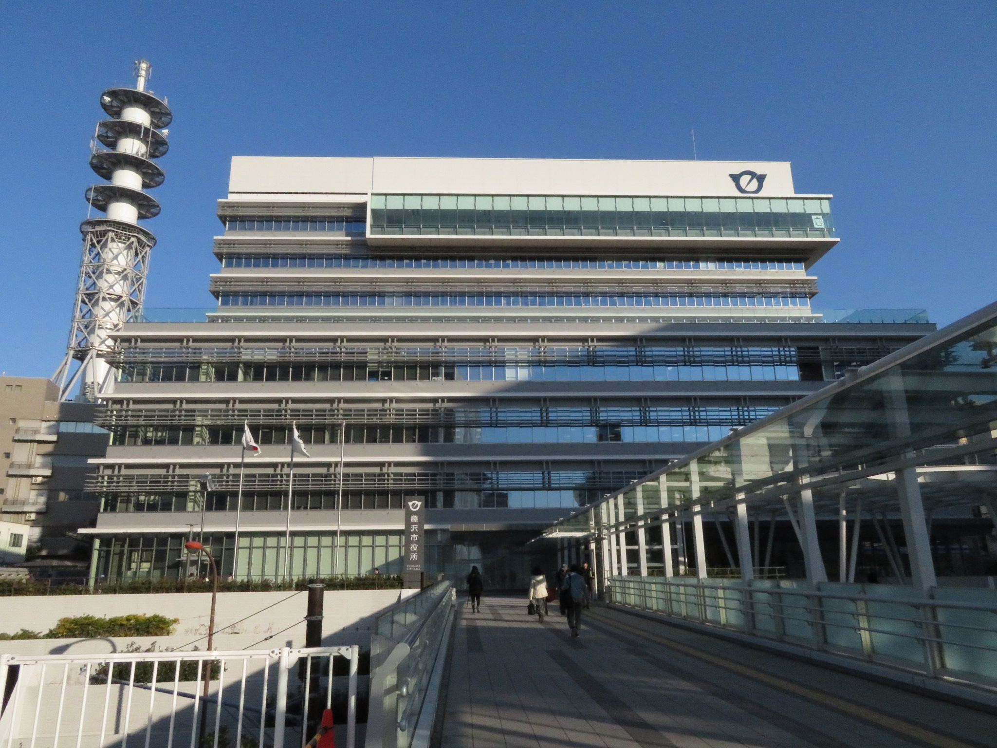 Fujisawa City Hall in Fujisawa, Kanagawa Prefecture, Japan